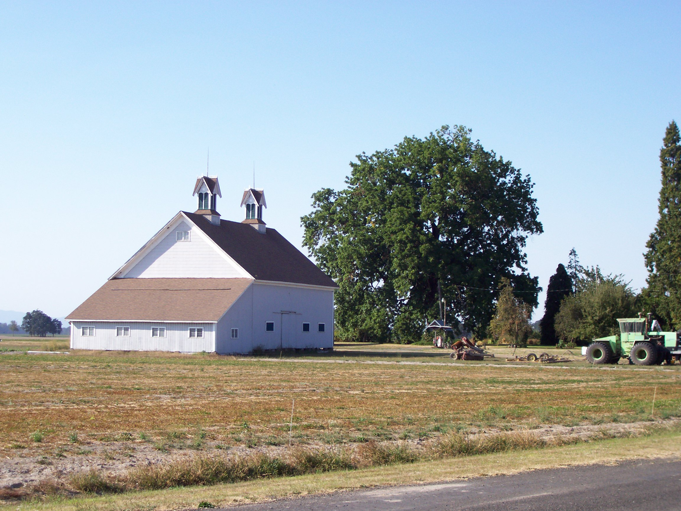 The Sydney and Gertrude Smith Barn, also known as the James Alexander Smith & Elmarison Smith Barn. Listed on the National Register of Historic Places along with the Lame-Smith House (not pictured)